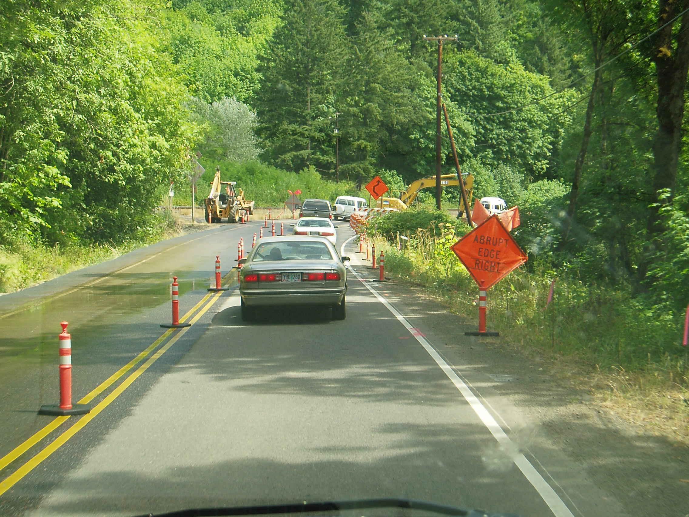 An Oregon Department of Transportation crew works on road repairs on Oregon 222 near Creswell.